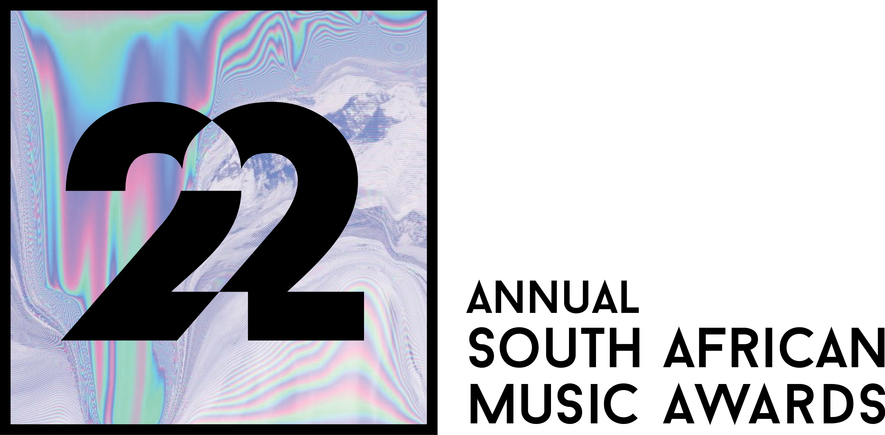 The 22nd Annual South African Music Awards Logo